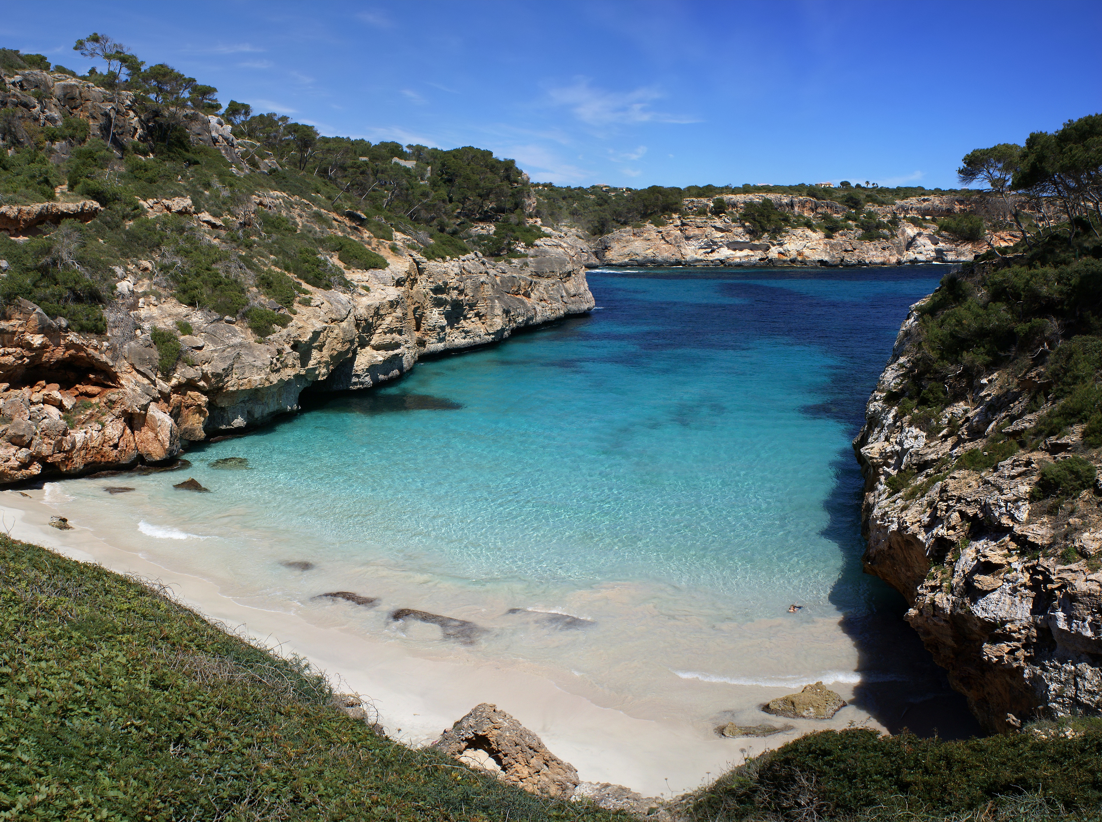 Cala del Moro near Santanyi, Mallorca.